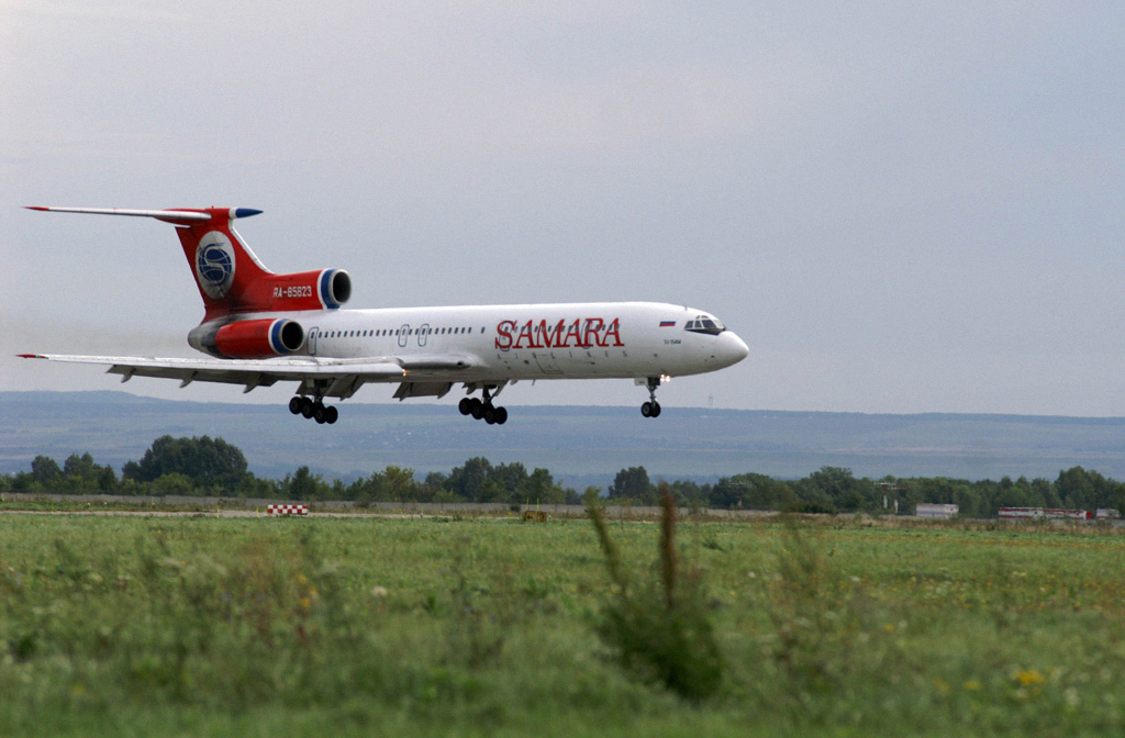 “Samara airport”. TU-154M landing at Kurumoch airport in Samara.